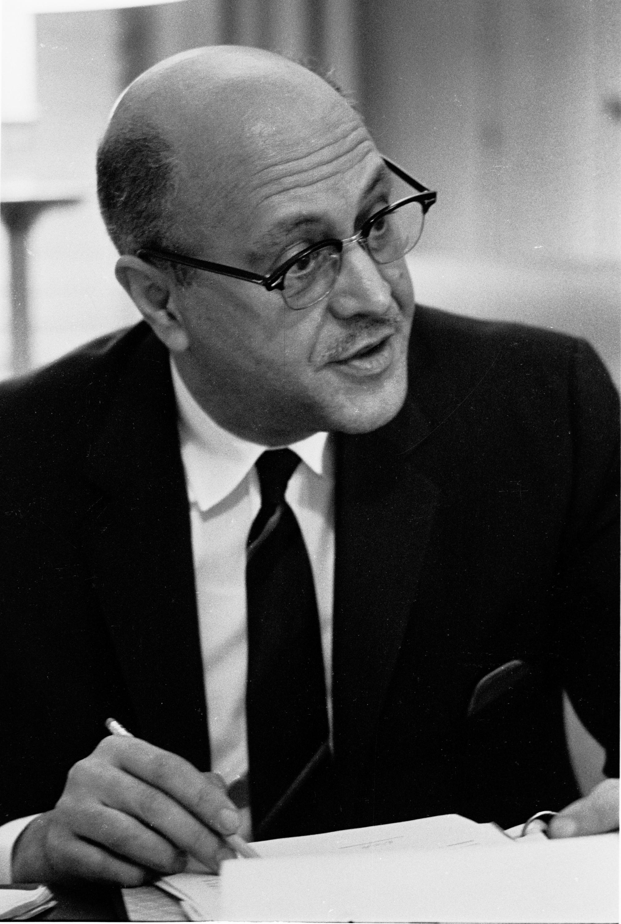 Robert C. Weaver, United States Secretary of Housing and Urban Development from 1966 to 1968